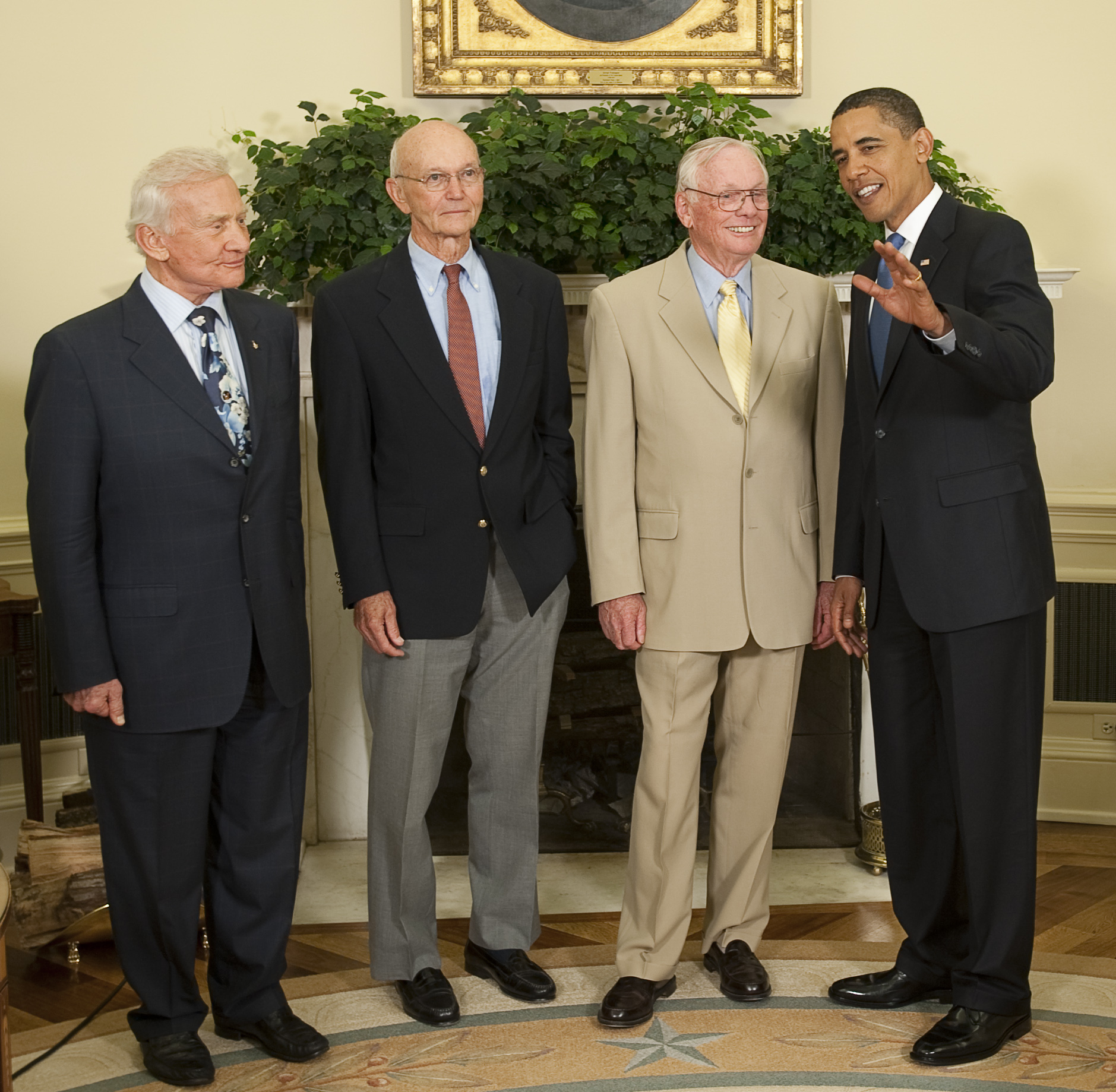 President Barack Obama poses with Apollo 11 astronauts, from left, Buzz Aldrin, Michael Collins, and Neil Armstrong, Monday, July 20, 2009, in the Oval Office of the White House in Washington, on the 40th anniversary of the Apollo 11 lunar landing. “One small step for man, one giant leap for mankind.” Photo Credit: (NASA/Bill Ingalls) NASA Identifier: nasahqphoto-3740508546